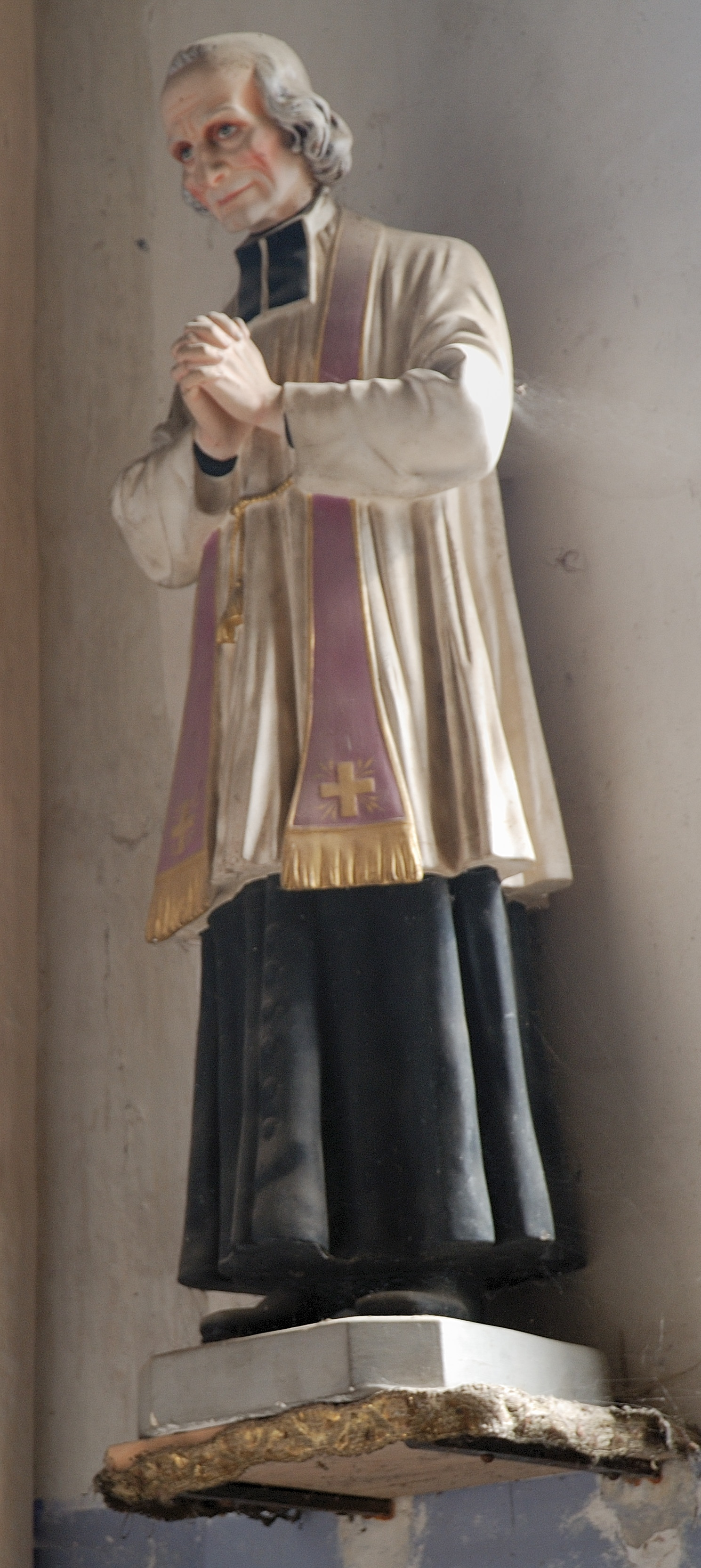 Statue of Jean-Marie Vianney in the church of Sermentizon (Puy-de-Dôme, France).